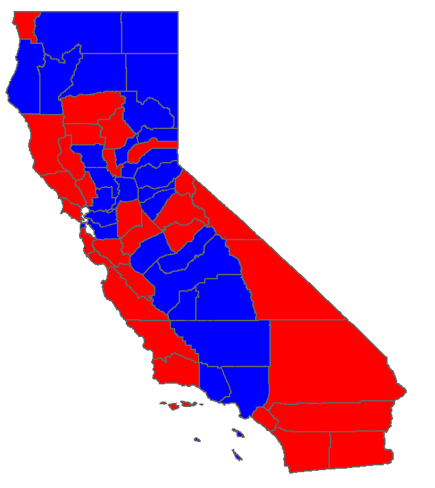 Map of election results by county in California for the 1948 U.S. Presidential election